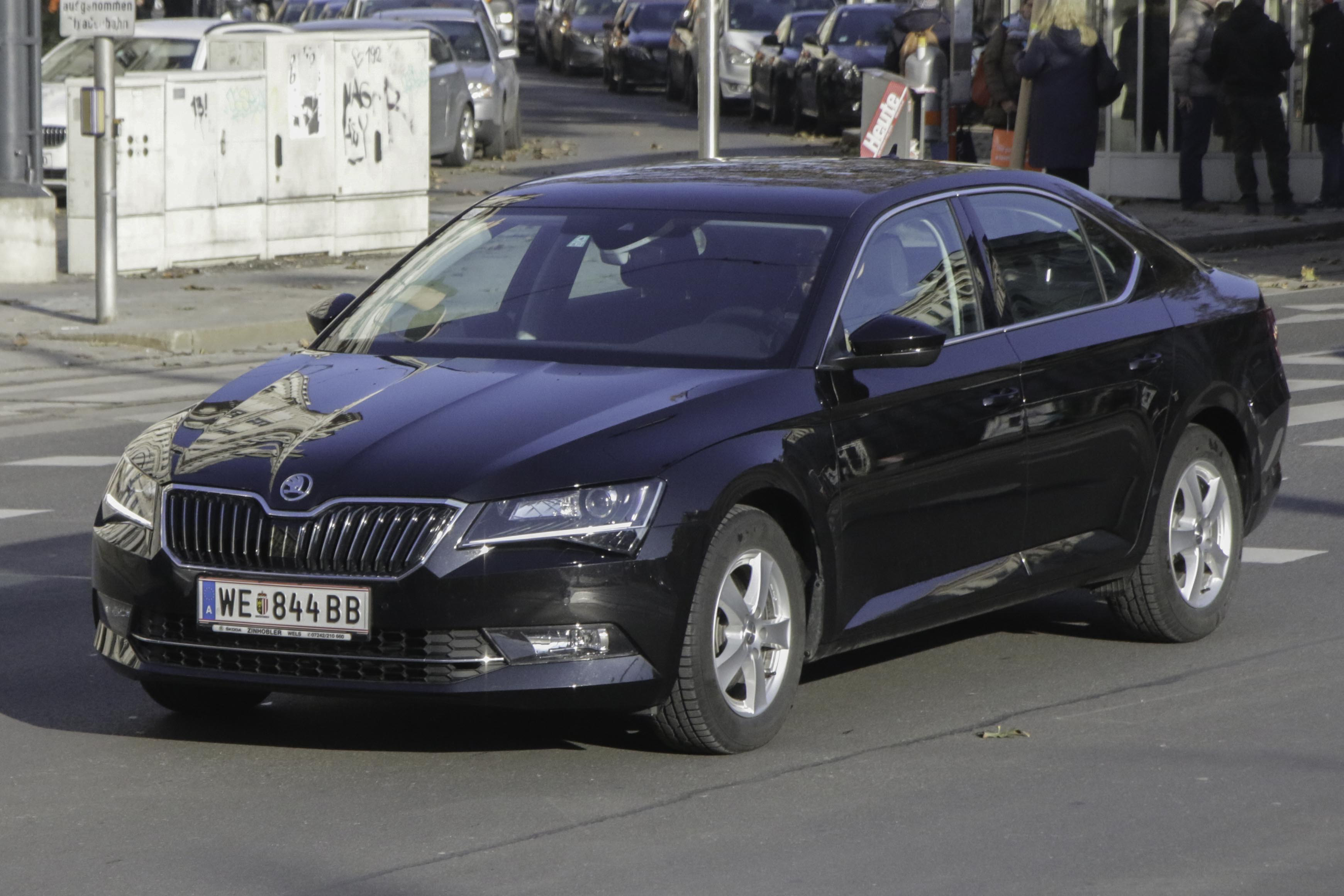 Škoda Superb IIINumberplate manipulated